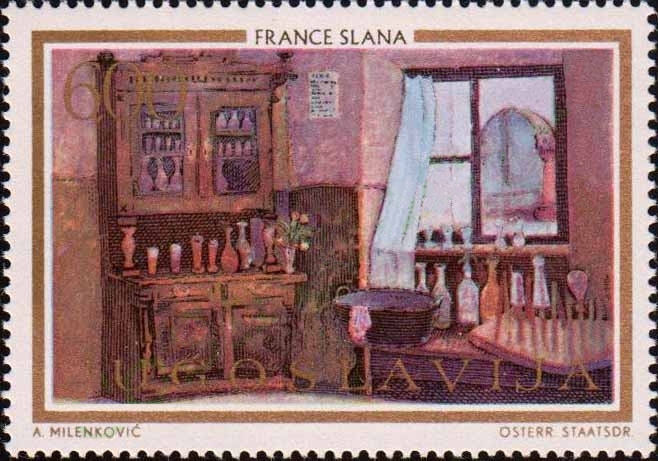 Hotel in Stara Loka by France Slana